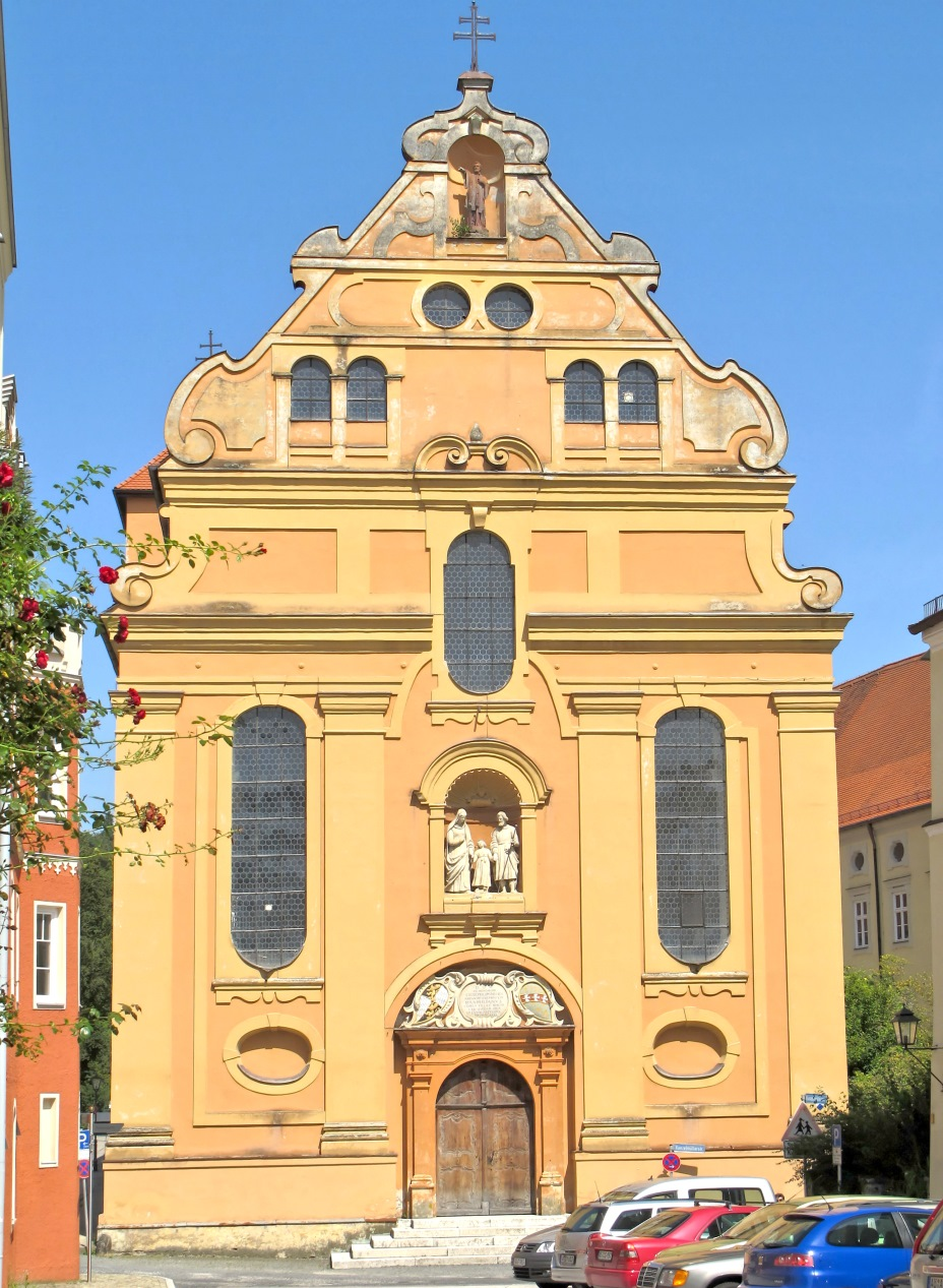 Burghausen: Church St.Josef